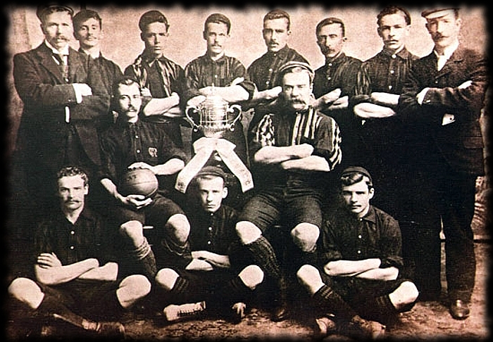 The Uruguayan CURCC team that won the first domestic championship for the club, posing with the trophy ("Copa Uruguaya"). Back, l. t. r. Thomas "Guillermo" Davies, Ricardo De los Ríos, Juan Pena, Charles "Carlos" Ward, Lorenzo Mazzucco, Anselmo Faustino Fabre, Thomas Lewis, George "Jorge" Canning; Middle, l. t. r. Alfred "Alfredo" Jones, James Buchanan; Front, l. t. r. William Davies, William "Guillermo" Best, Charles "Carlos" Lindeblad.